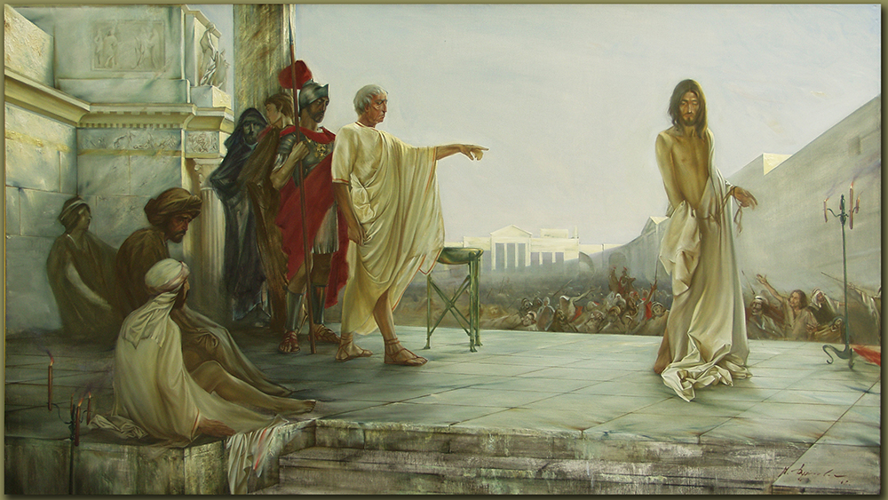 Dyploma art work by Myroslav Duzinkevych "This is the man"